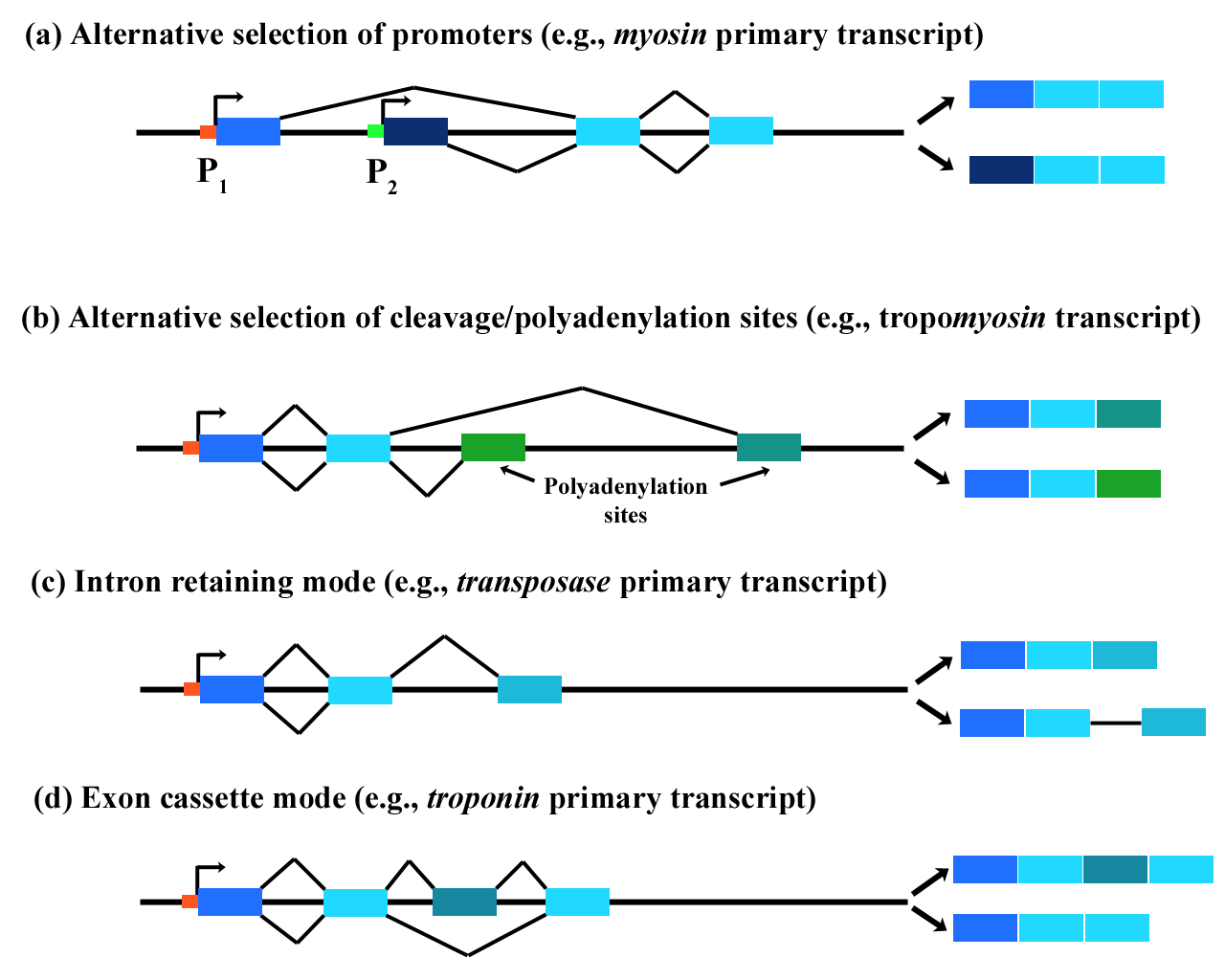 Alternative Splicing